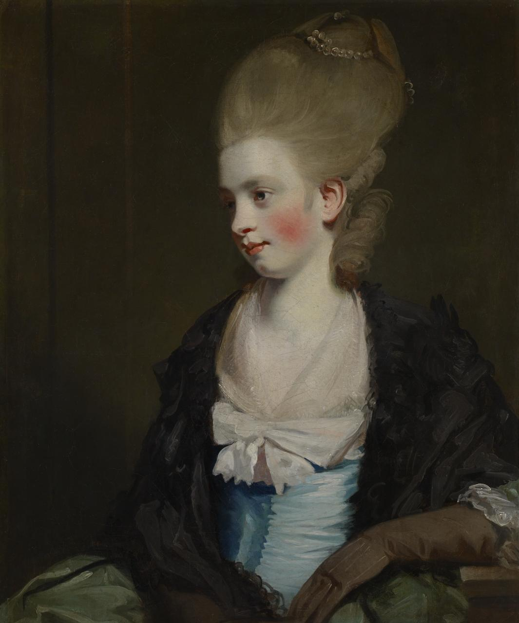 Miss Offy Palmer, portrait of the future Theophila Gwatkin, wife of Robert Lovell Gwatkin.